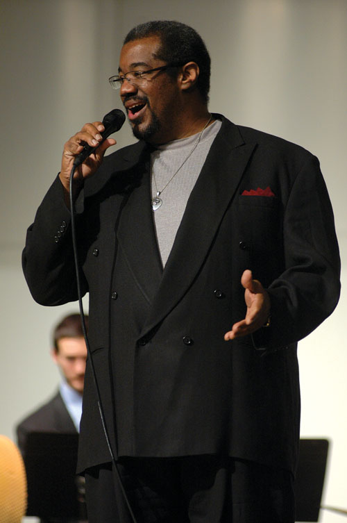 Kevin Mahogany photographed on March 4, 2007